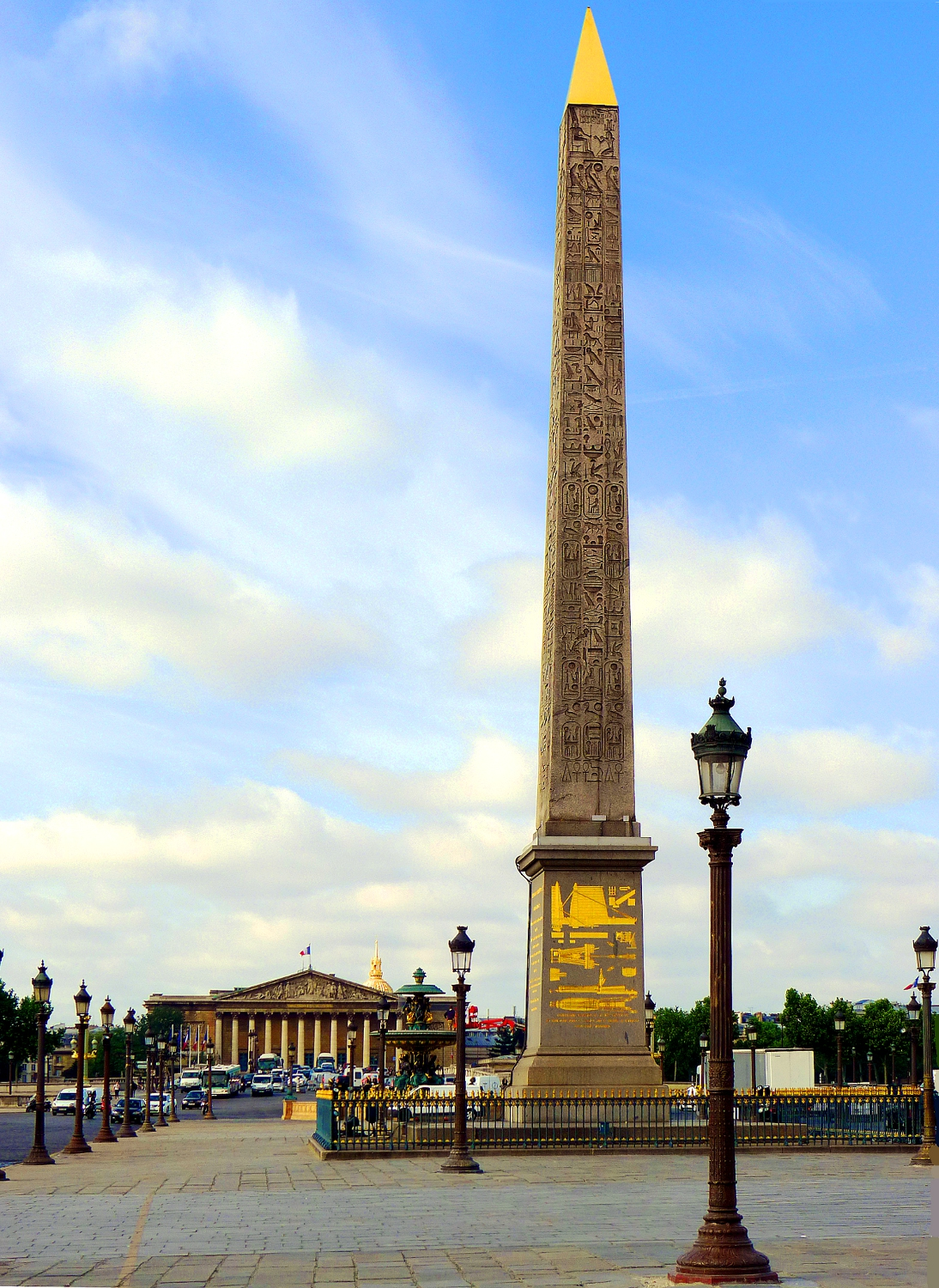 Concorde place - Paris